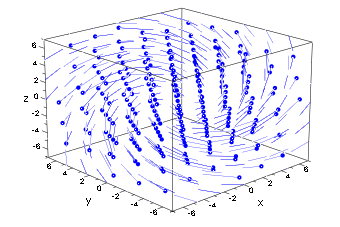 Vectorfield (-y,z,x)